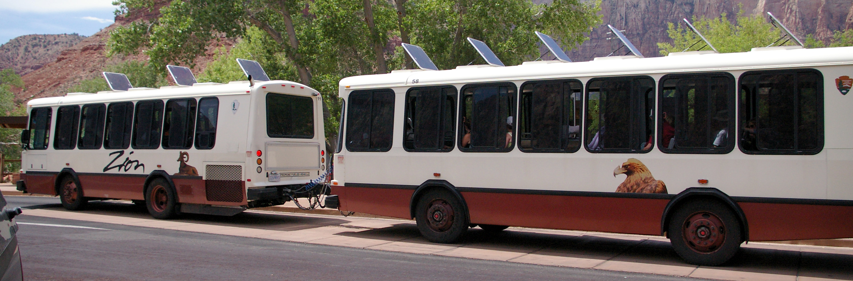 A Zion National Park shuttle bus